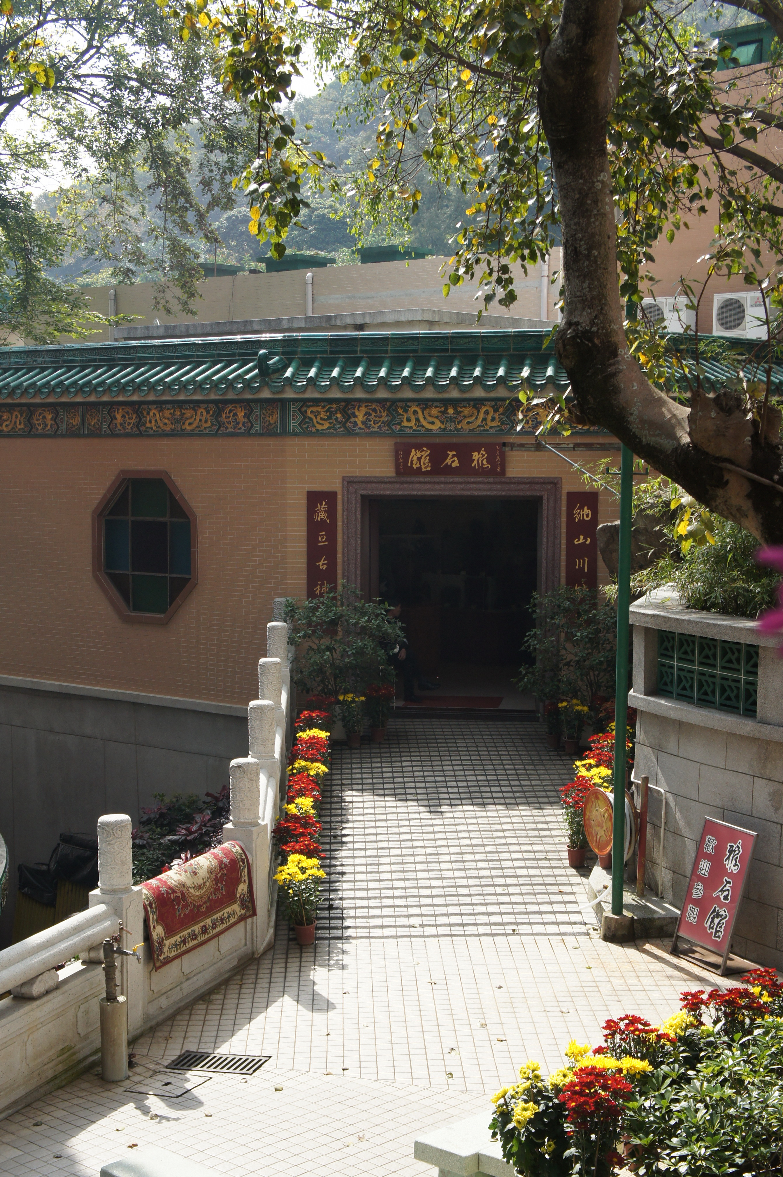 Precious Stone Hall, Yuen Yuen Institute, New Territories, Hong Kong.